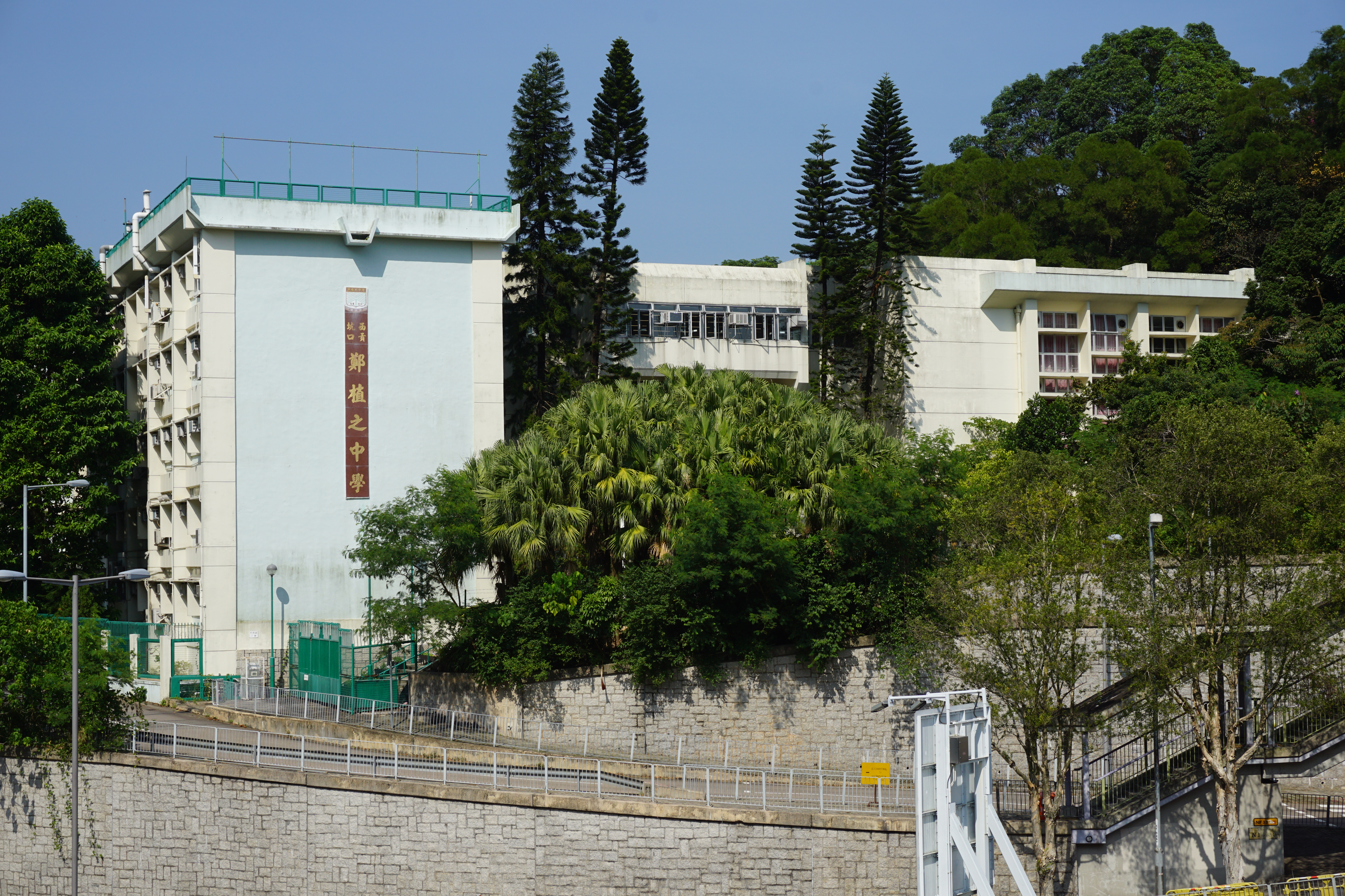 Cheng Chek Chee Secondary School in Sai Kung, Hong Kong.